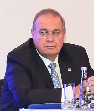 CHP leader Kemal Kılıçdaroğlu and MPs Selin Sayek Böke and Faik Öztrak participating in a panel discussion at TÜSİAD before the November 2015 general election